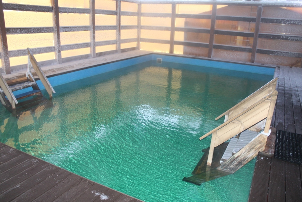 Thermal spring Zagza. Kabansky district, Buryatia